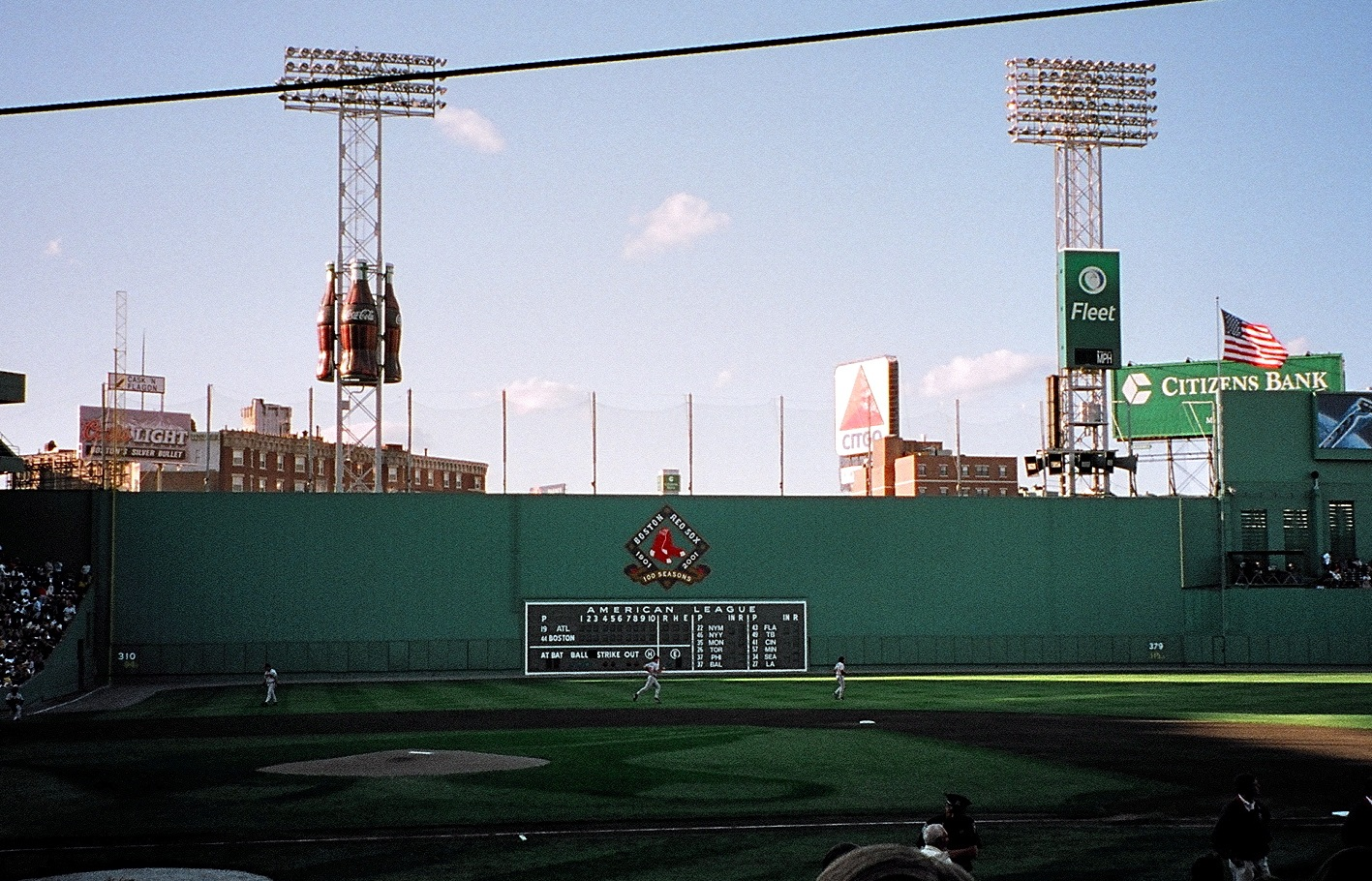 The Green Monster at Fenway Park, 2001.